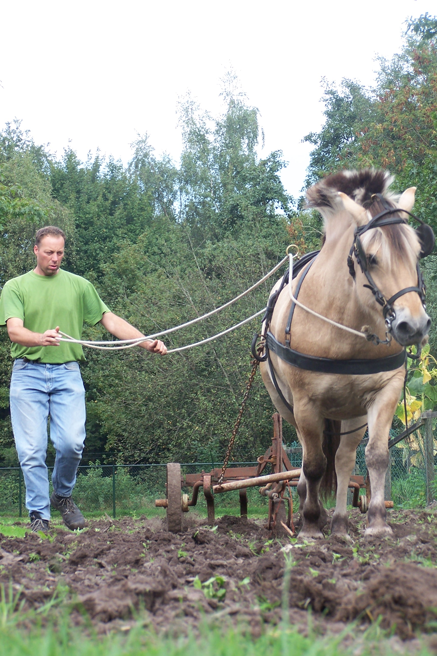 Norwegian Fjord Horse. Farming the oldfashioned way...